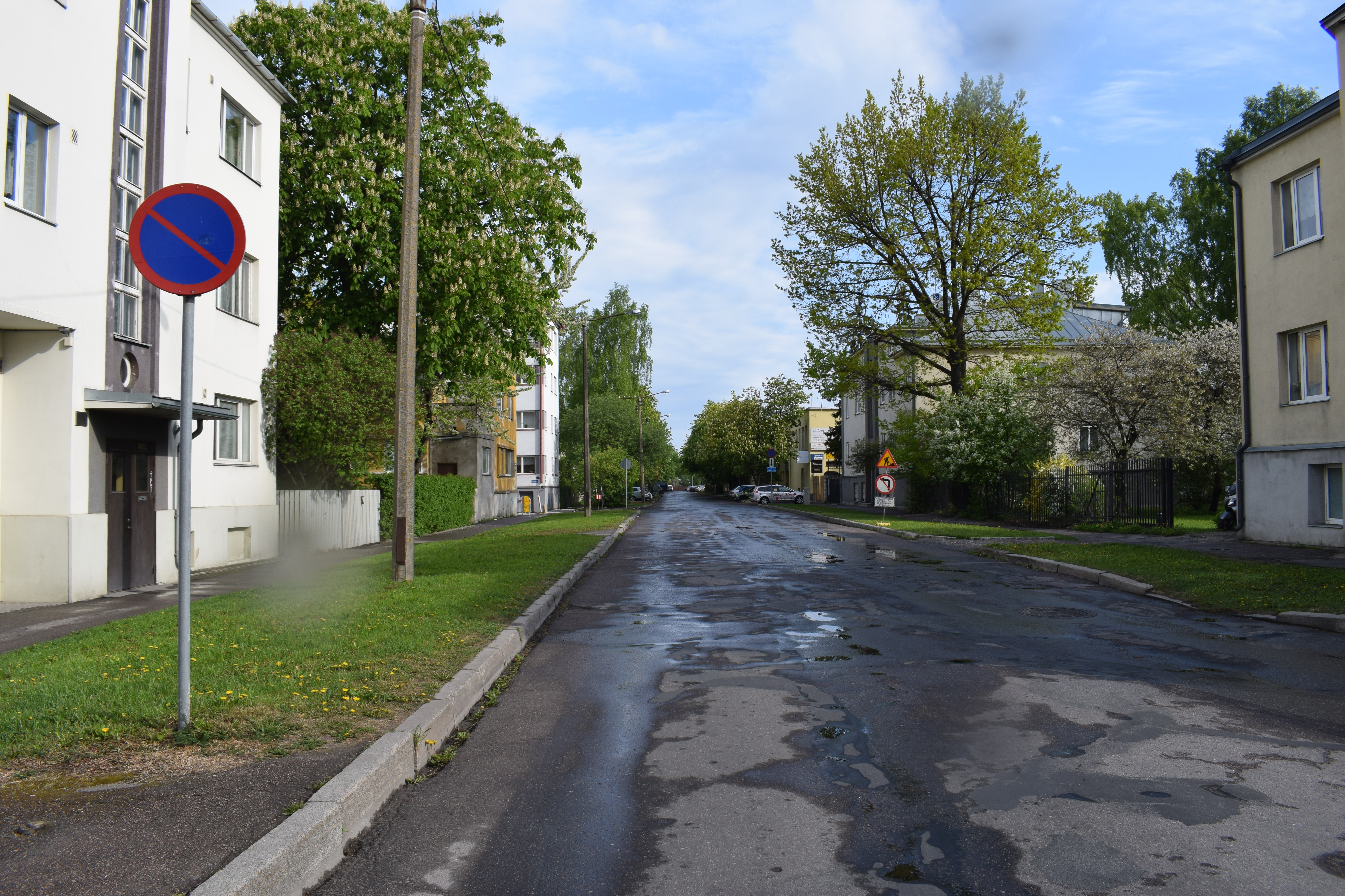 Madara street